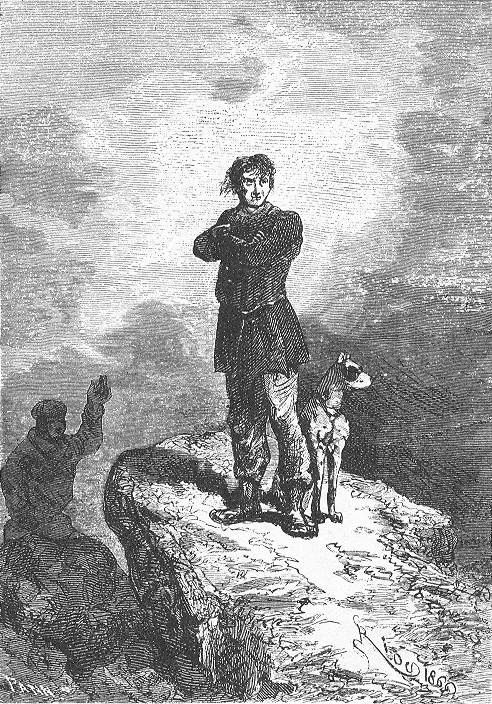 An illustration from Jules Verne's novel "Journeys and Adventures of Captain Hatteras", part II: "The Field of Ice" drawn by Édouard Riou and/or Henri de Montaut.